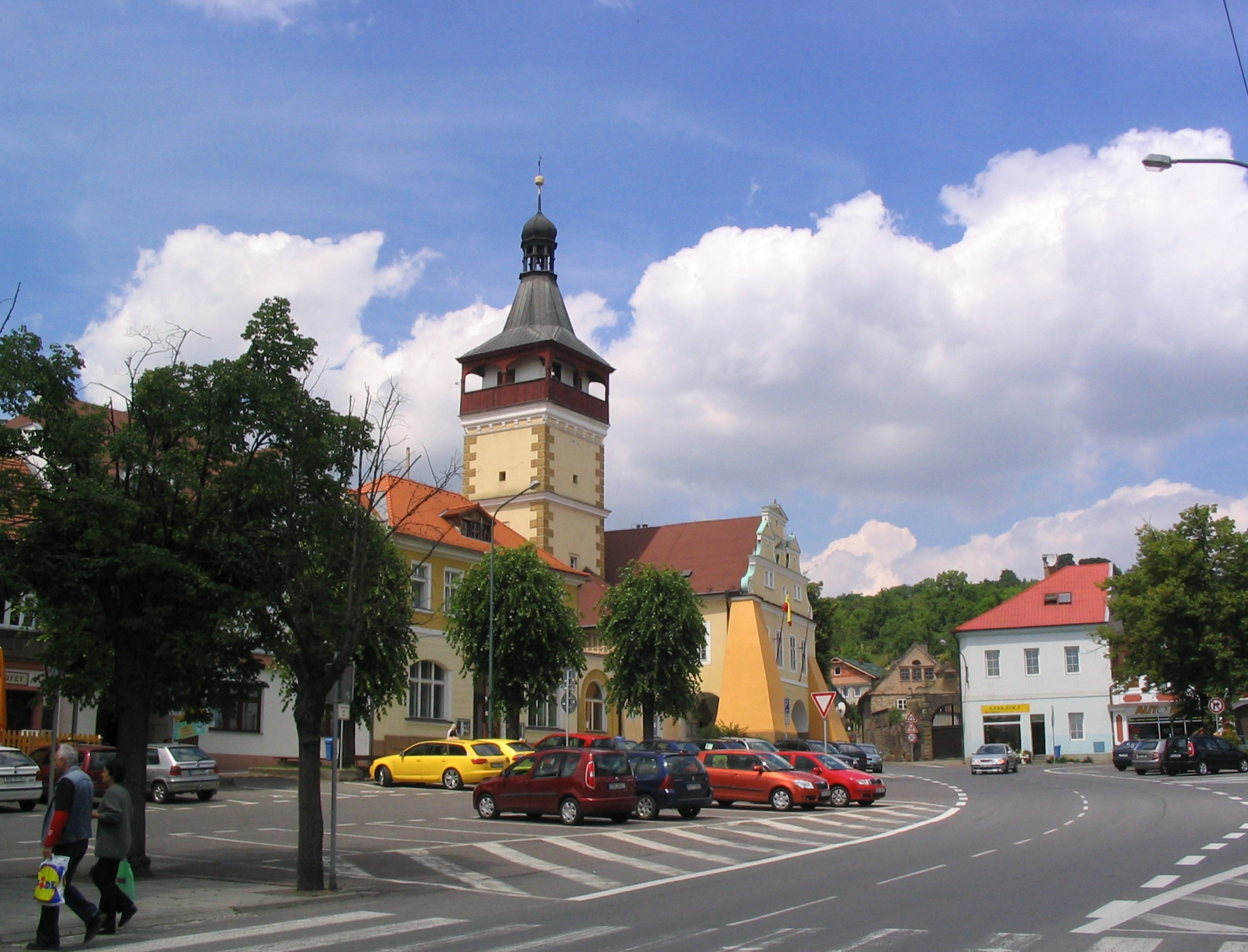 Town of Dobrovice, Czech Republic, market place